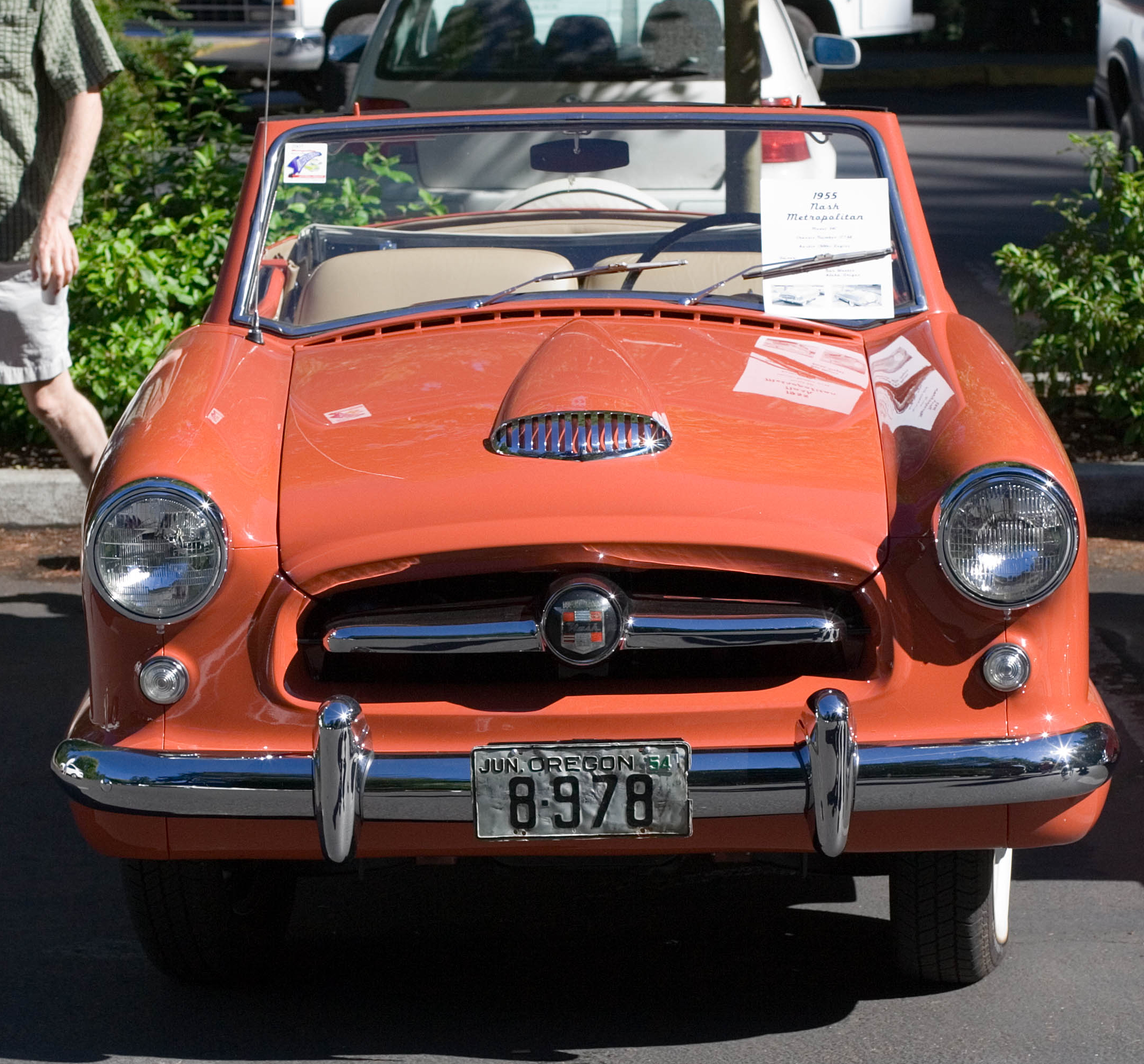 Nash Metropolitan